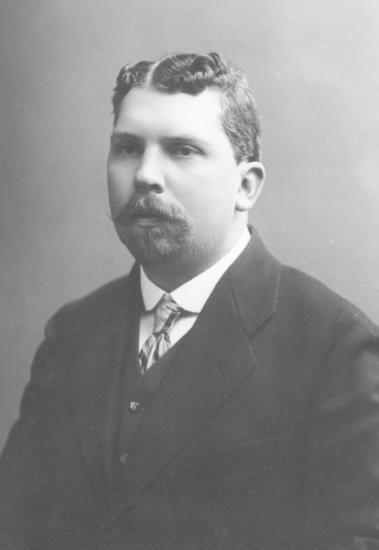 Alexander Baryshnikov